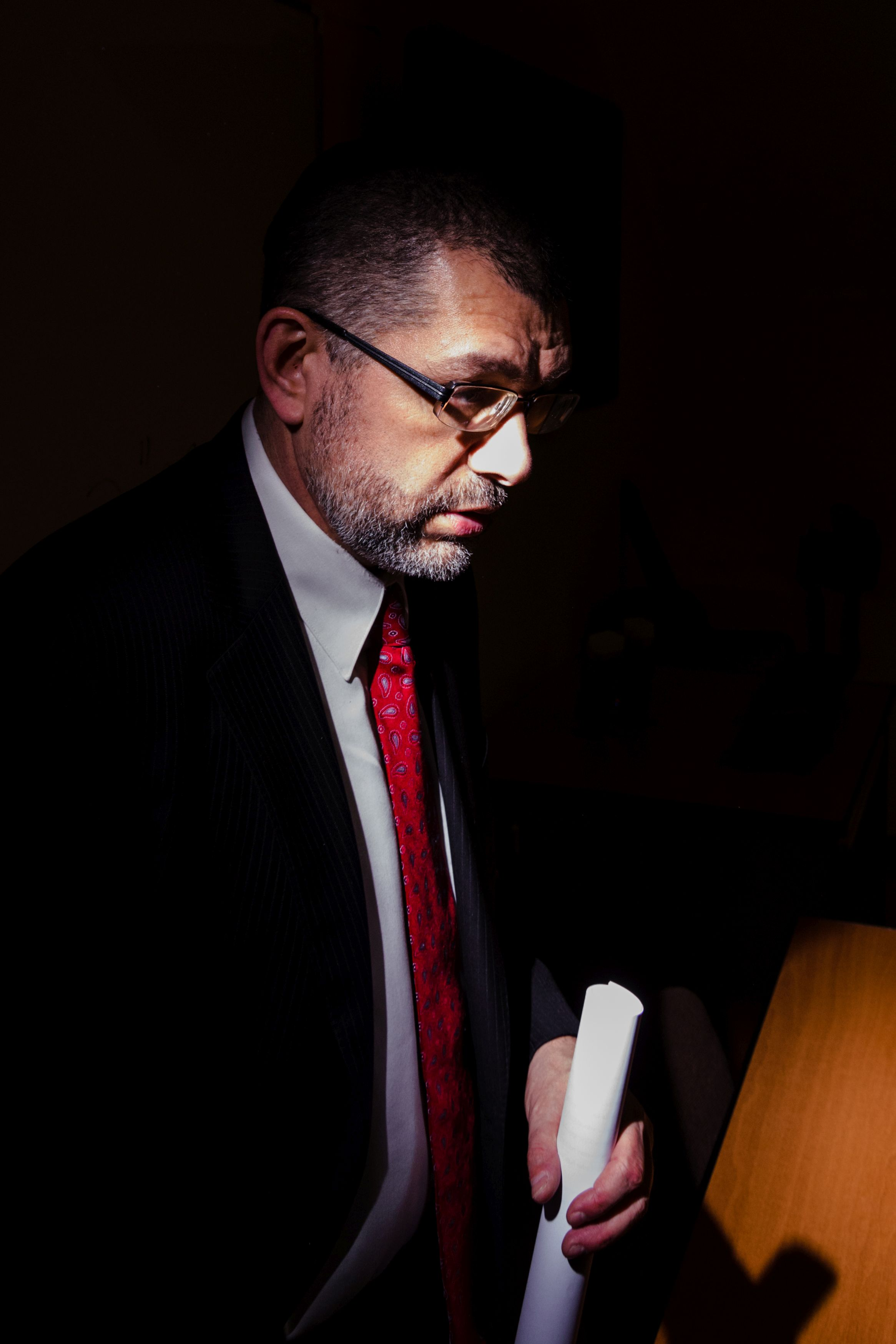 Photo from the Kyiv Mohyla Academy archive